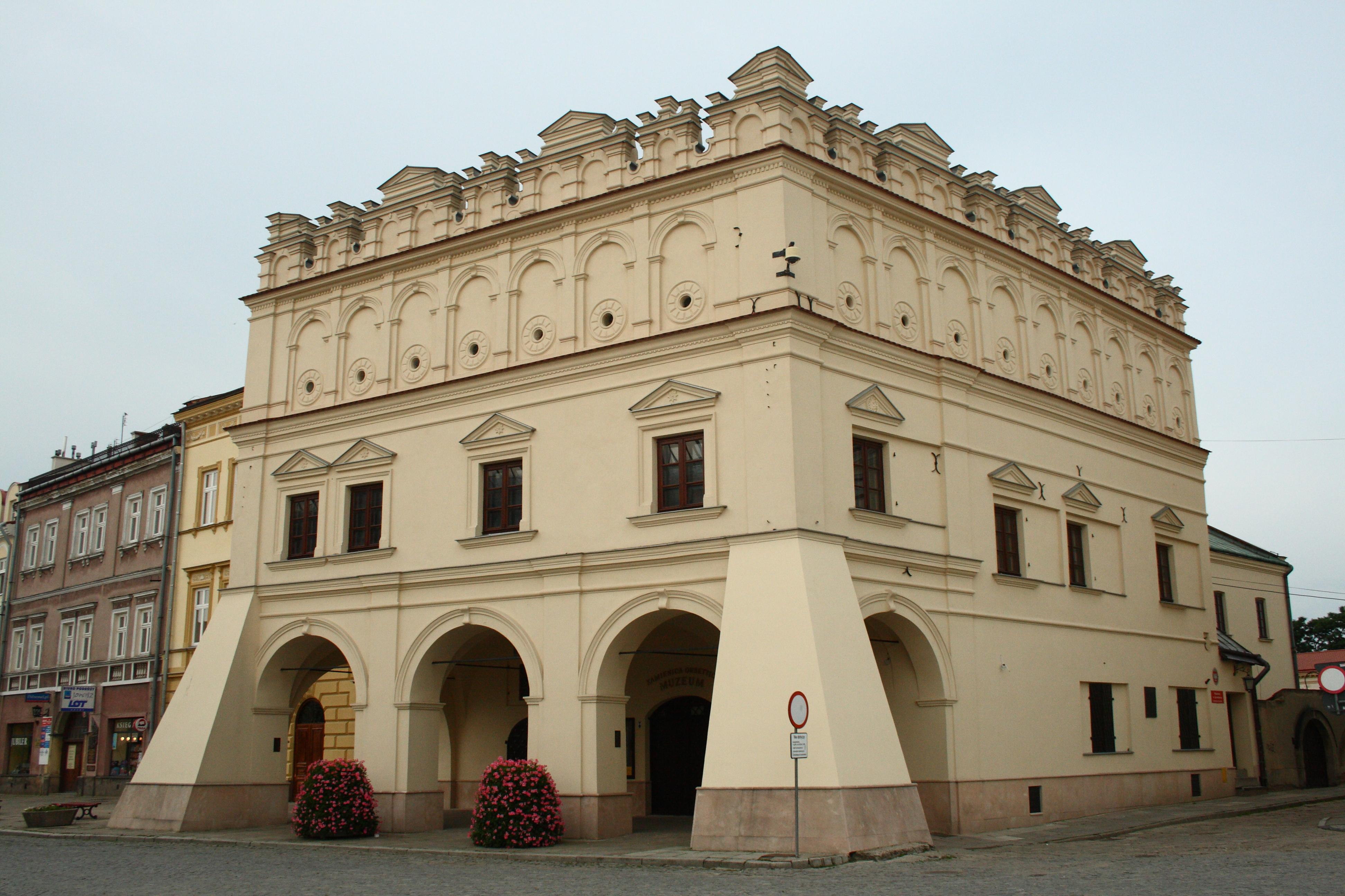 Kamienica Orsettich in Jarosław